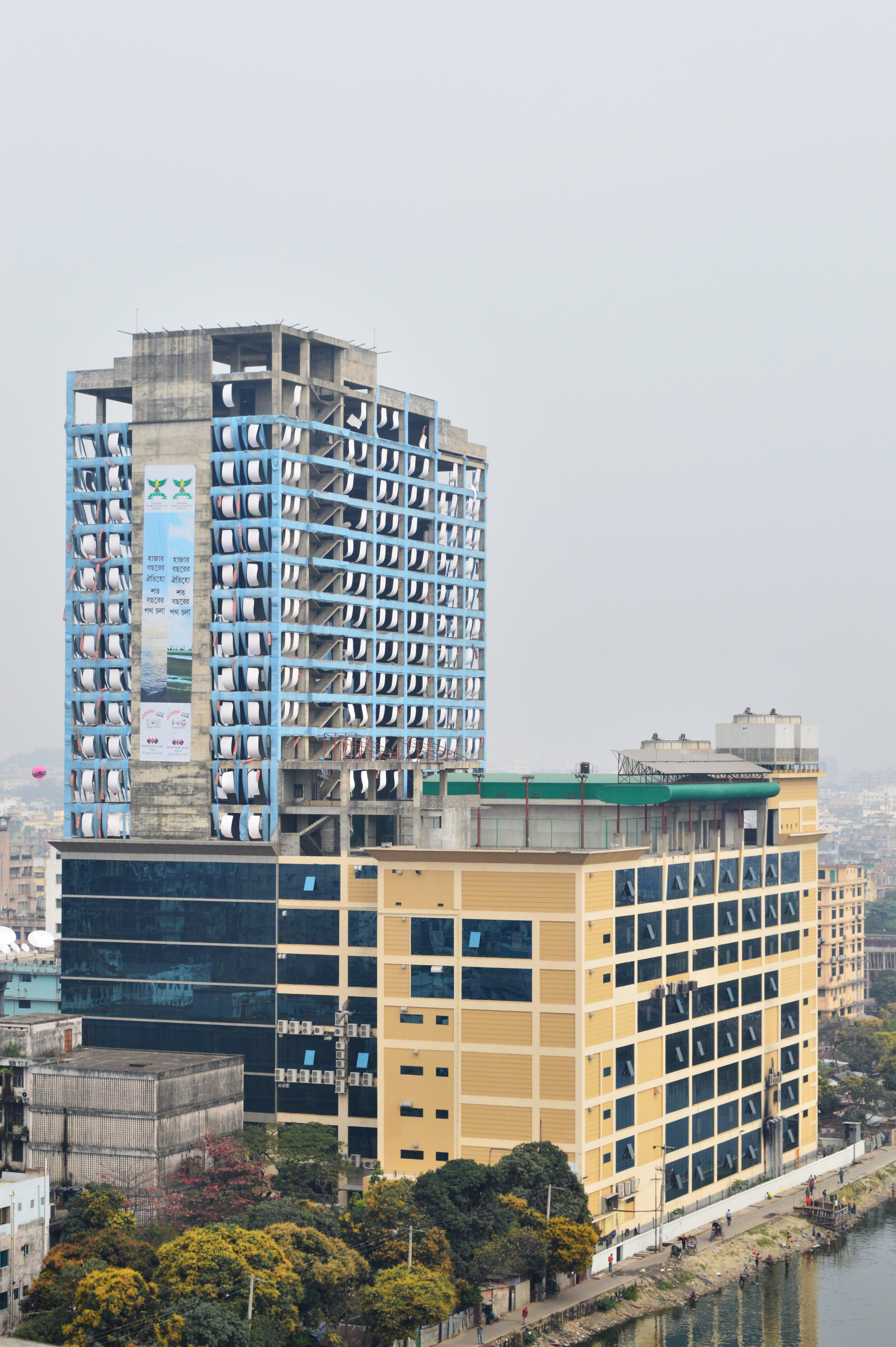 Back view of World Trade Center Chittagong from C&F Tower, from west-south side